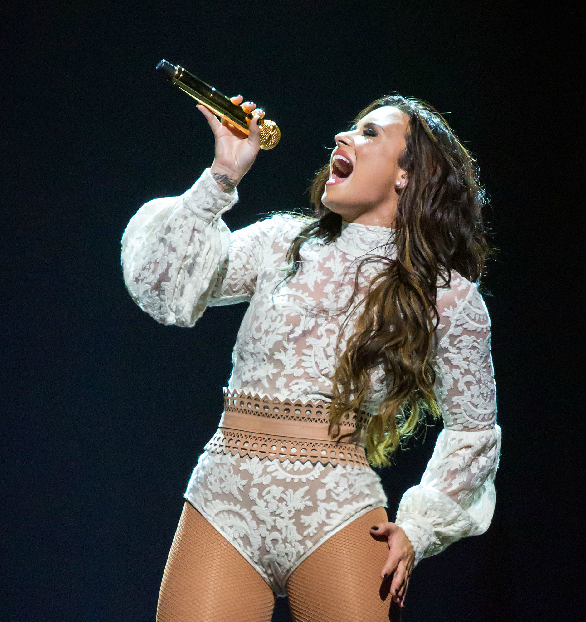 Demi Lovato performing at the AT&T Center in San Antonio, Texas on September 10, 2016.